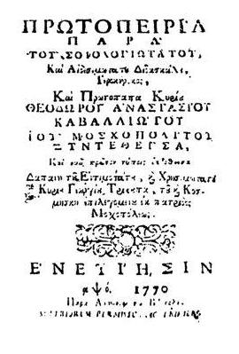 Cover page of Protopeiria, by Theodoros A. Kavalliotis